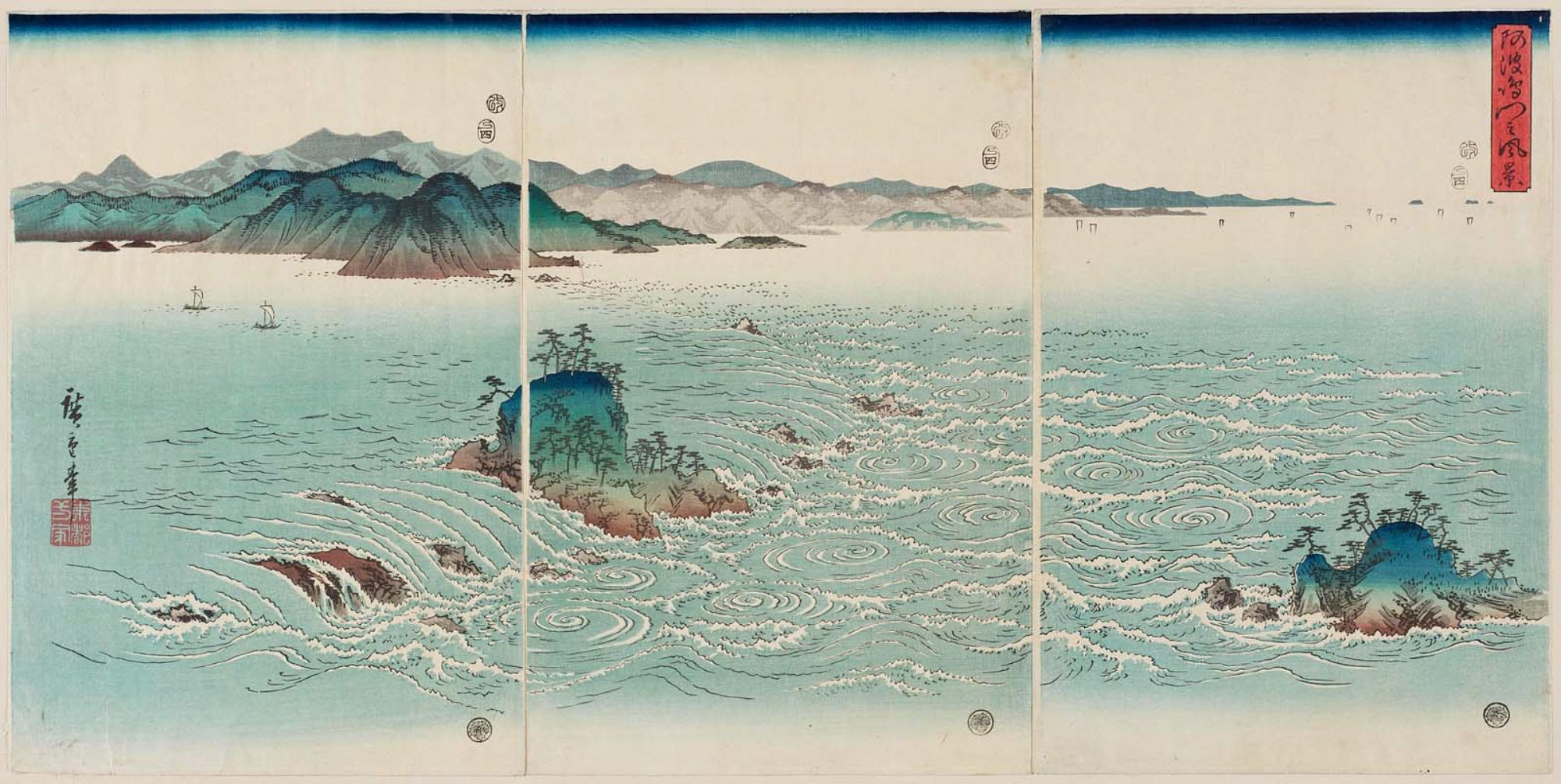 View of the Whirlpools at Awa, colour nishiki-e ukiyo-e print by Utagawa Hiroshige; Vertical ooban triptych; 37.7 x 76.2 cm; 1857, Ansei 4